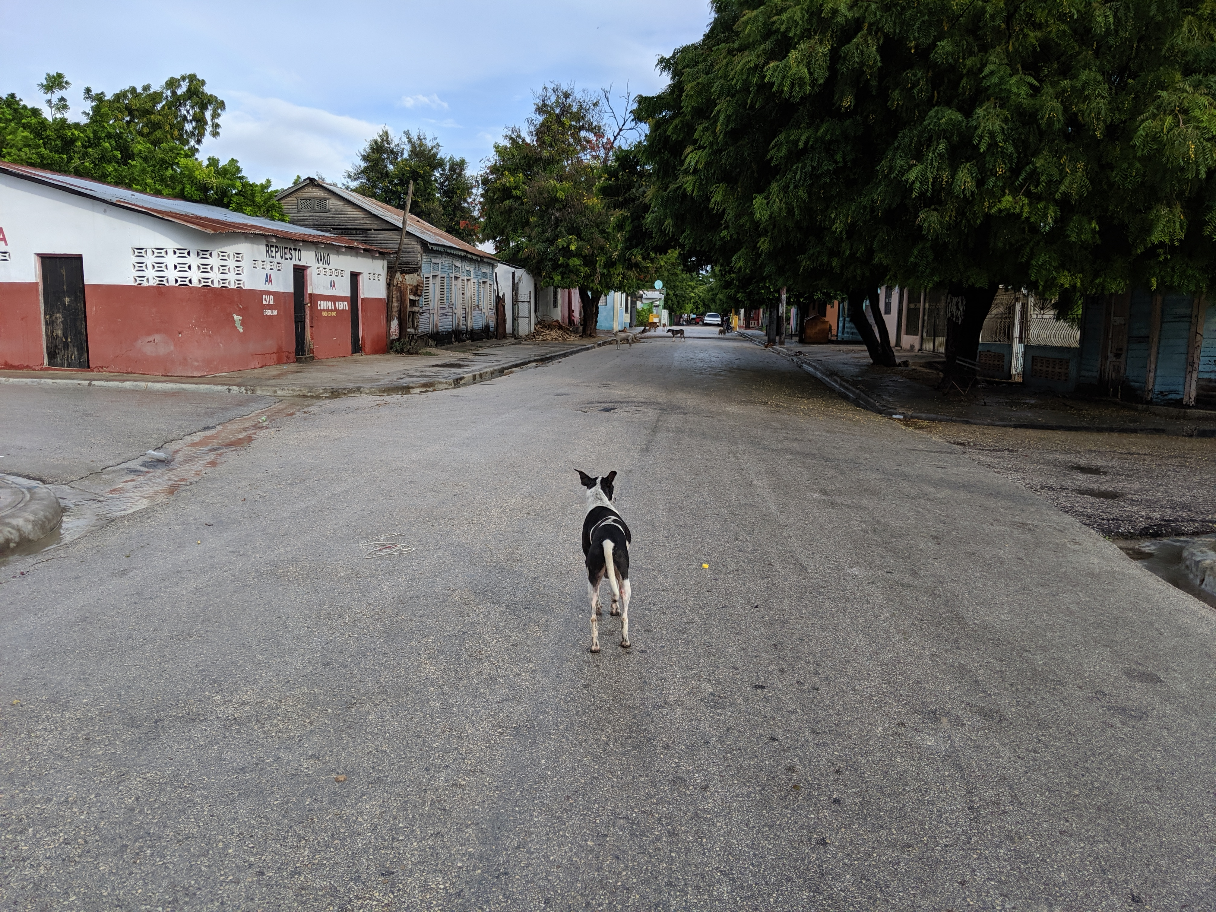 One of the streets of Las Salinas with a dog. Photo taken in 2019.